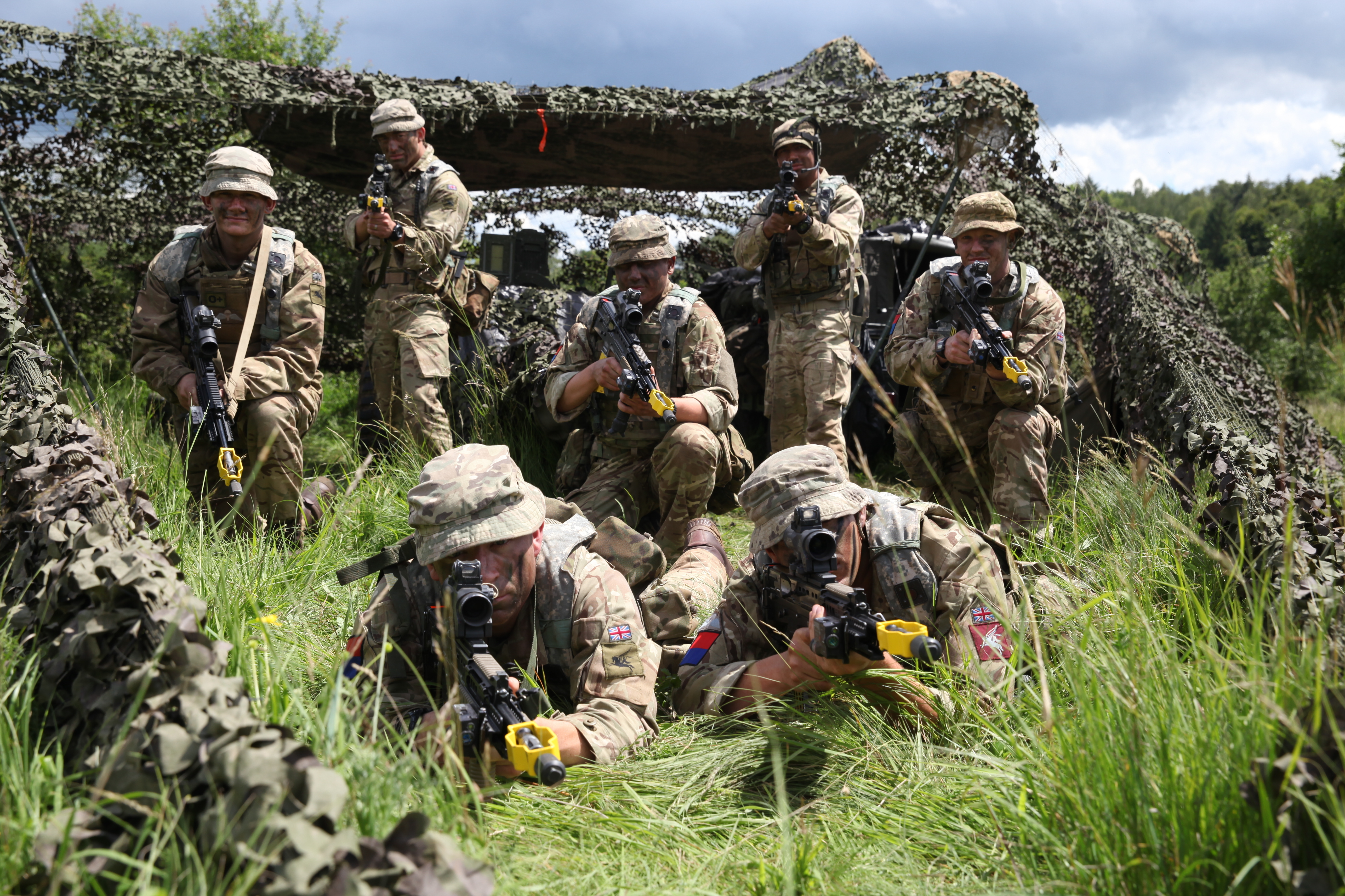 United Kingdom soldiers of 7th Parachute Regiment Royal Horse Artillery, pose for a group photograph as part of morale building during Swift Response 16 training exercise at the Hohenfels Training Area, a part of the Joint Multinational Readiness Center, in Hohenfels, Germany, Jun. 18, 2016. Exercise Swift Response is one of the premier military crisis response training events for multi-national airborne forces in the world. The exercise is designed to enhance the readiness of the combat core of the U.S. Global Response Force – currently the 82nd Airborne Division’s 1st Brigade Combat Team – to conduct rapid-response, joint-forcible entry and follow-on operations alongside Allied high-readiness forces in Europe. Swift Response 16 includes more than 5,000 Soldiers and Airmen from Belgium, France, Germany, Great Britain, Italy, the Netherlands, Poland, Portugal, Spain and the United States and takes place in Poland and Germany, May 27-June 26, 2016. (U.S. Army photo by Pfc. Rachel Wilridge/Released) Unit: VIPER COMBAT CAMERA USAREUR